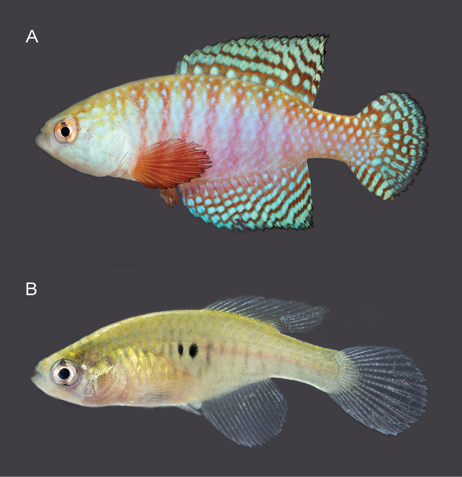 Hypsolebias hamadryades sp. n. A live holotype, UFRJ 6893, male, 26.9 mm SL (caudal fin damaged and regenerated) B live paratype, UFRJ 6895, female, 21.2 mm SL.